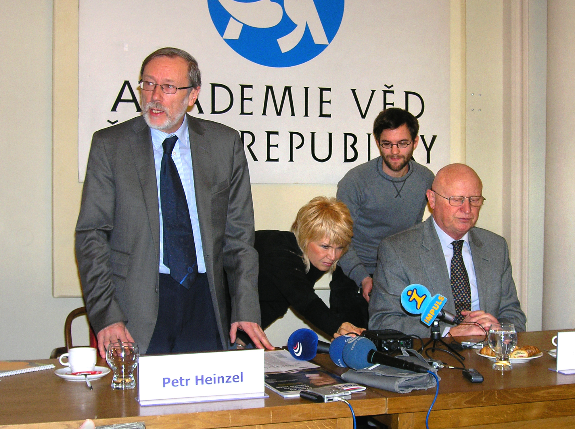 Press conference to the launch of the International Year of Astronomy in Prague. Petr Heinzel, director of the Czech Astronomical Institute, on the left and Václav Pačes, president of the Czech Academy of Sciences, on the right.